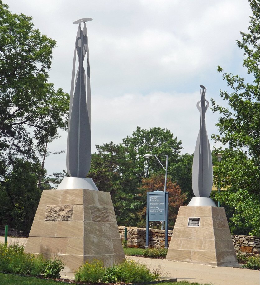 "Gateway Sculptures" by Alexander Archipenko (1950). Located on the campus of UMKC-University of Missouri Kansas City, Kansas City, Missouri. (Archipenko was Artist-in-Residence at UMKC in 1950.)